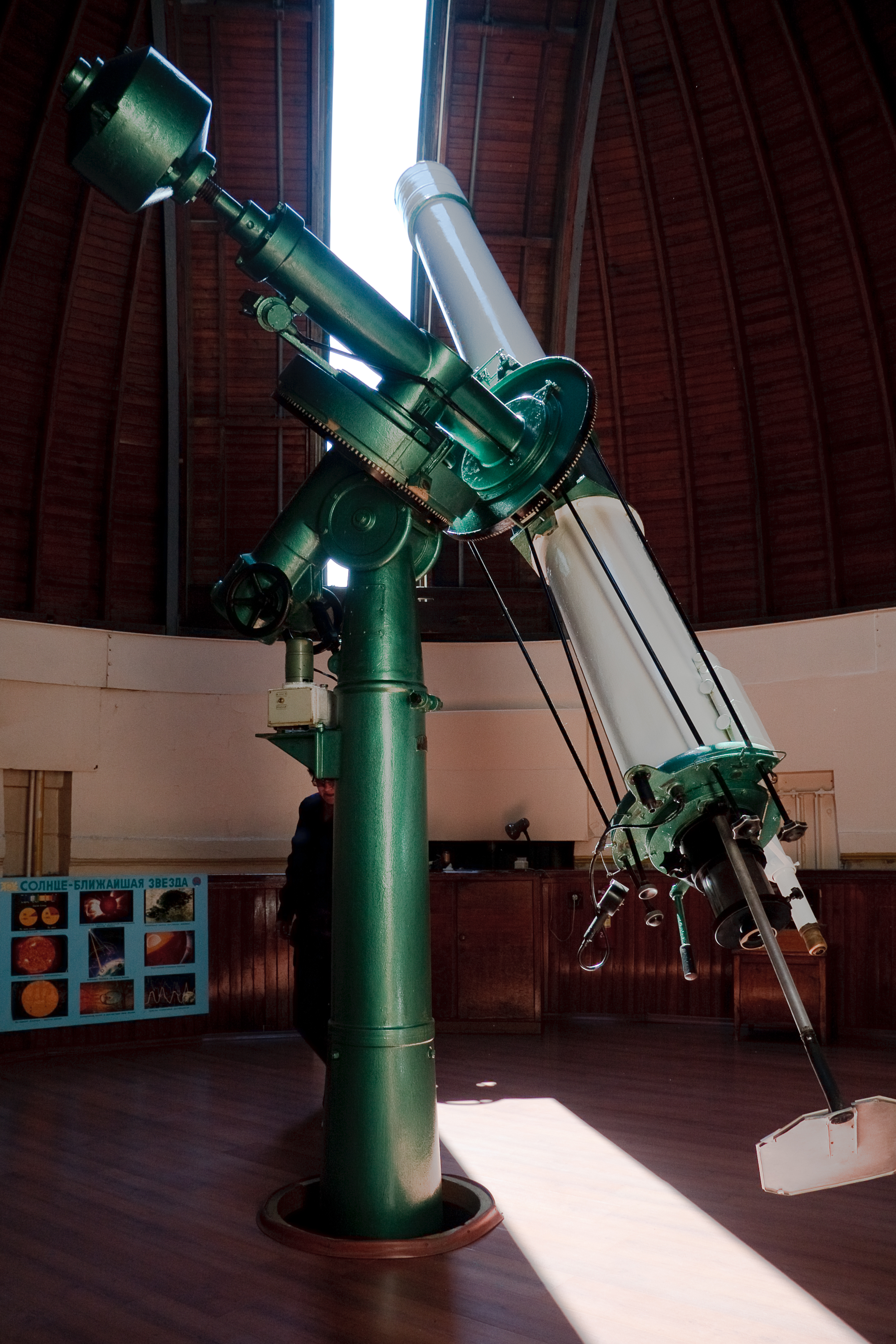 Carl Zeiss 12" refractor telescope (focal length 5 meters, 800x zoom, weight 2.5 tons) in Volgograd Planetarium Observatory